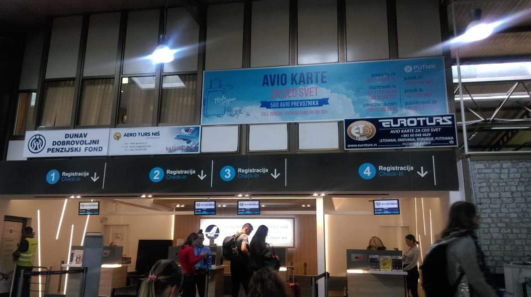 Niš airport ' check in area